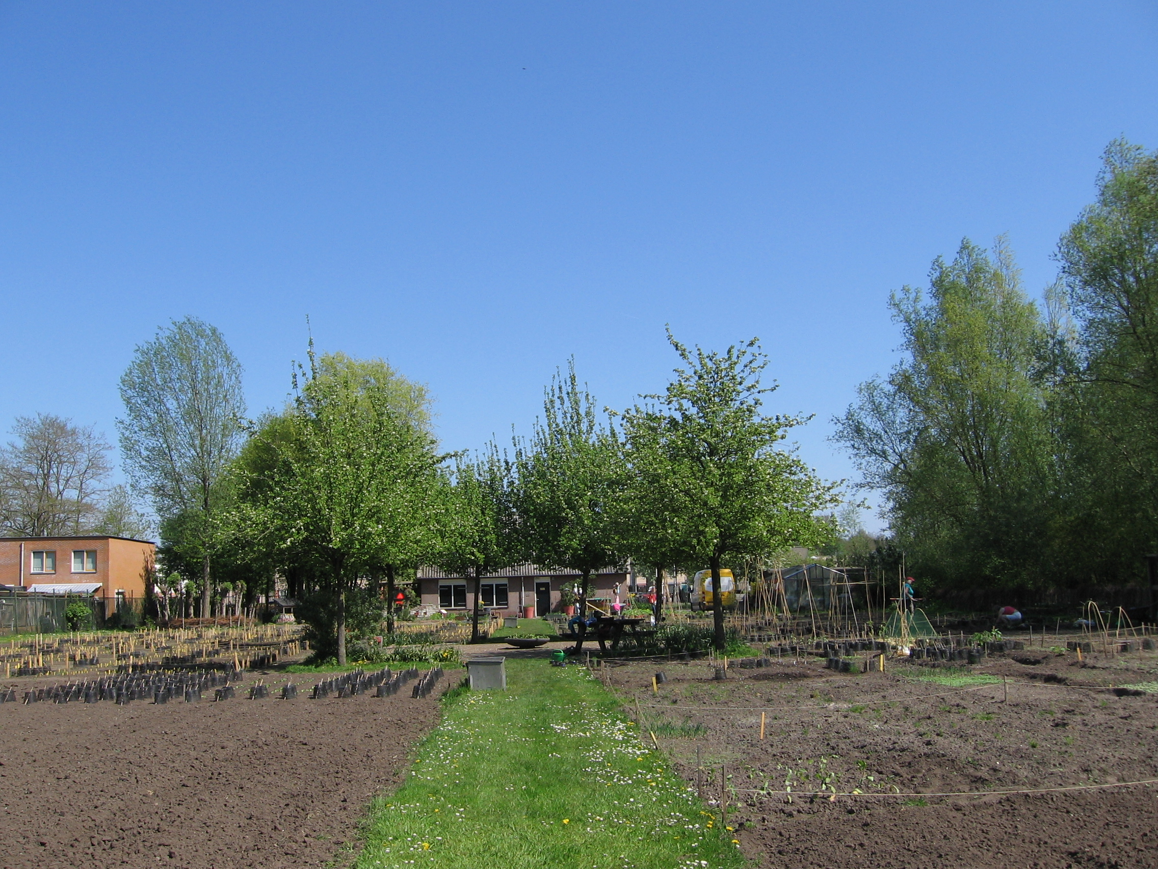 School garden Plutodreef Utrecht